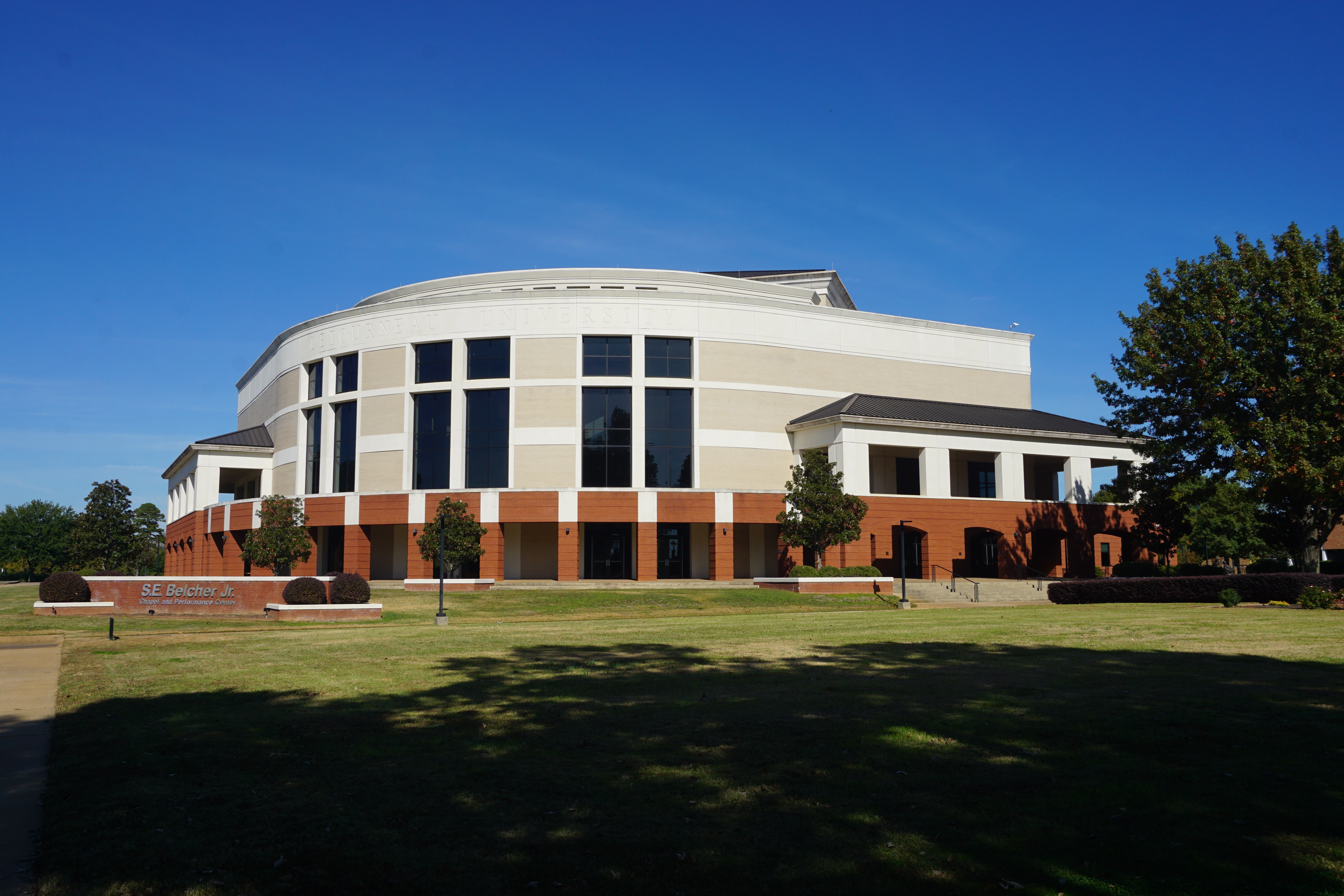 The Belcher Center on the campus of LeTourneau University in Longview, Texas (United States).